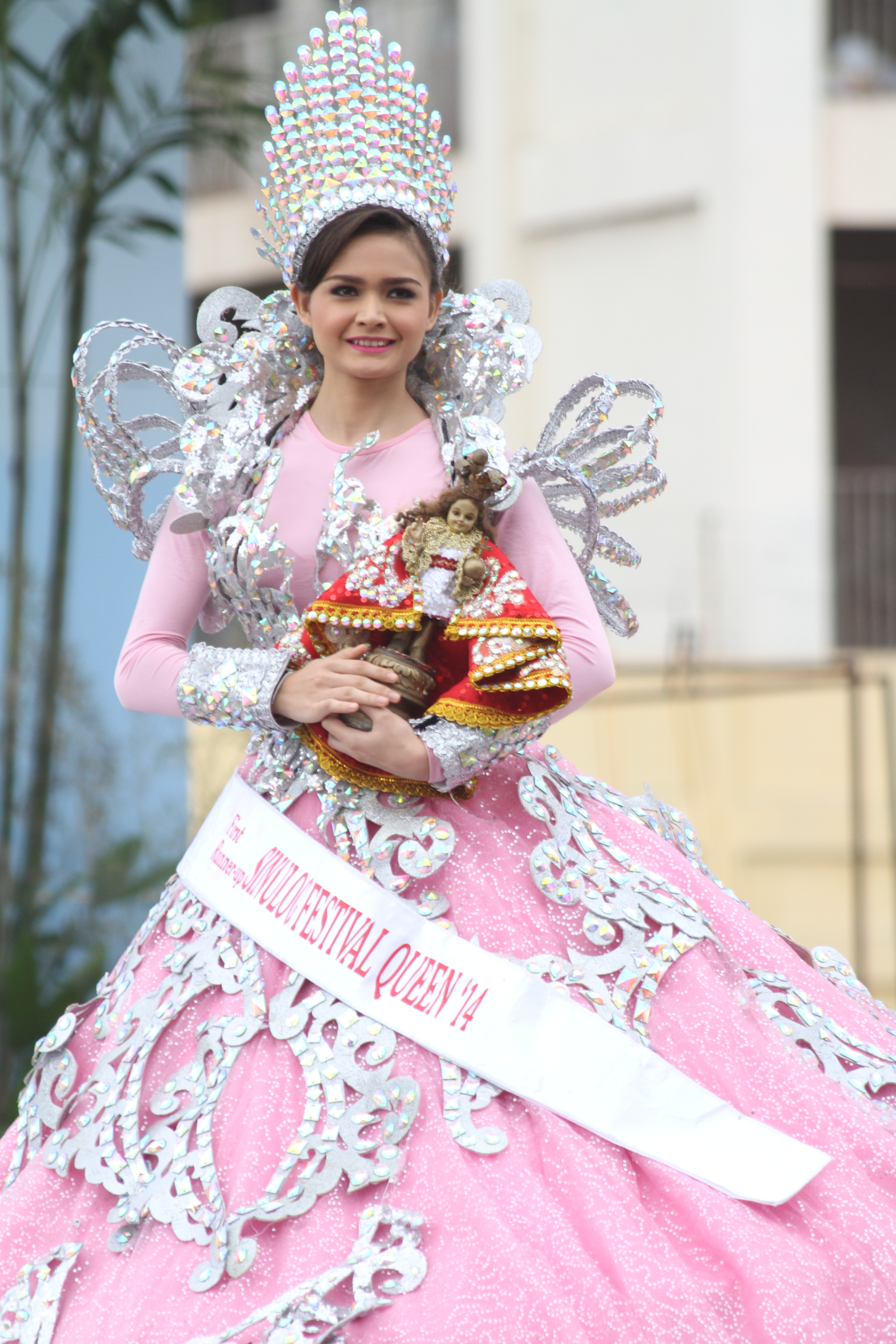 Sinulog Festival Cebu City